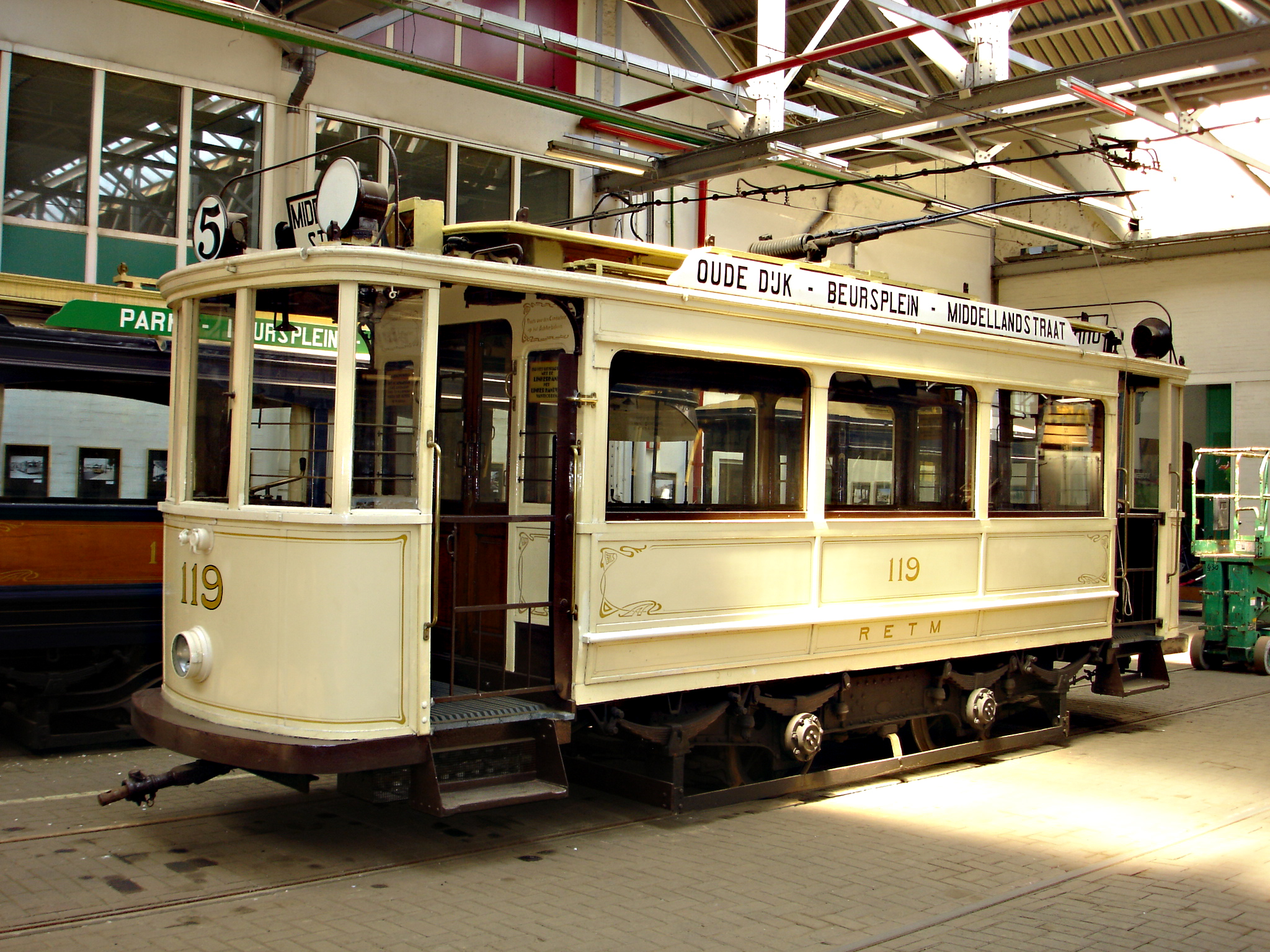 Tram 119 TrammuseumRotterdam